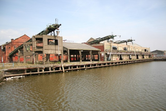 Fish docks Once bustling docks now quiet and derelict